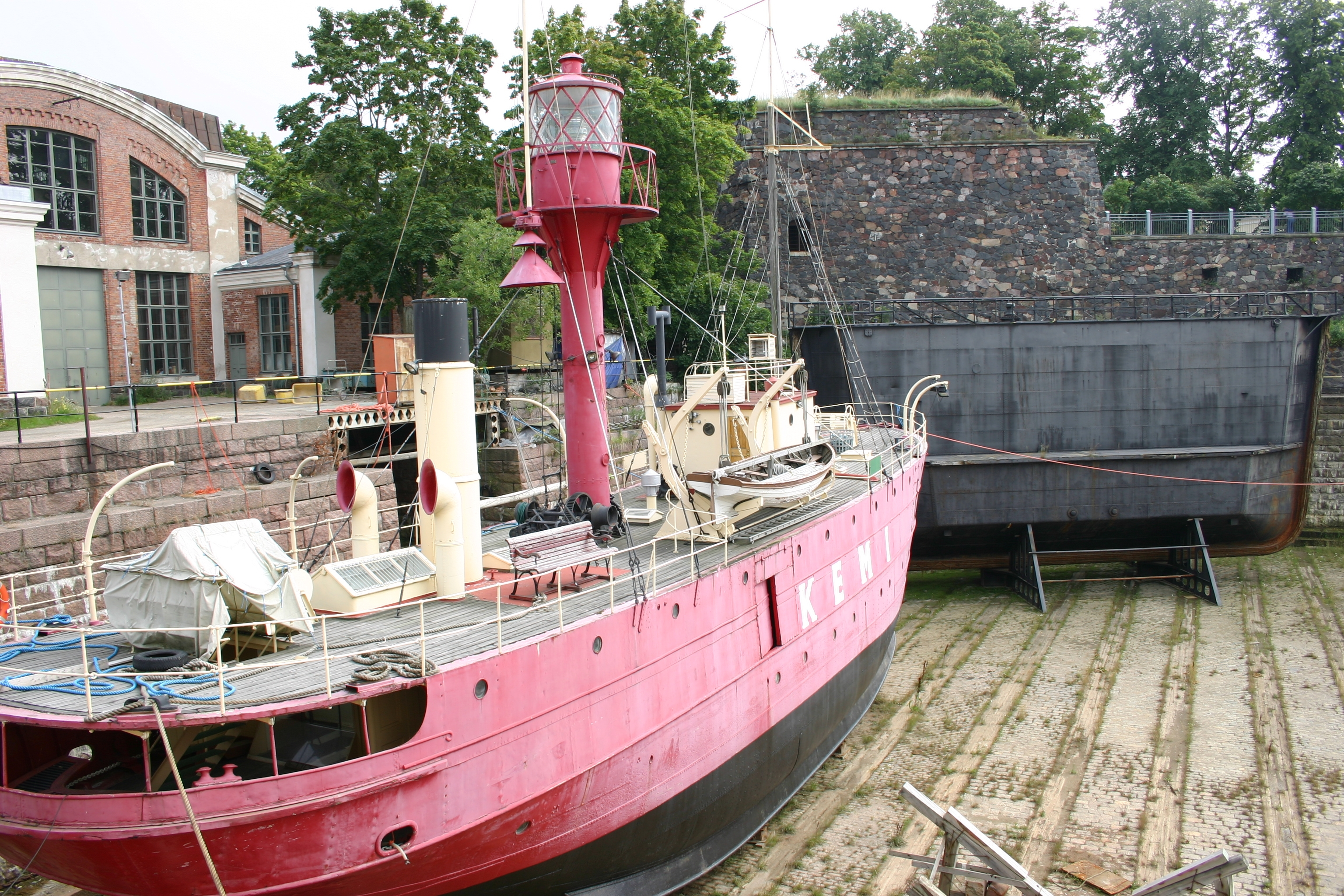 Lighthouse vessel Kemi at Suomenlinna dry dock in Helsinki, Finland